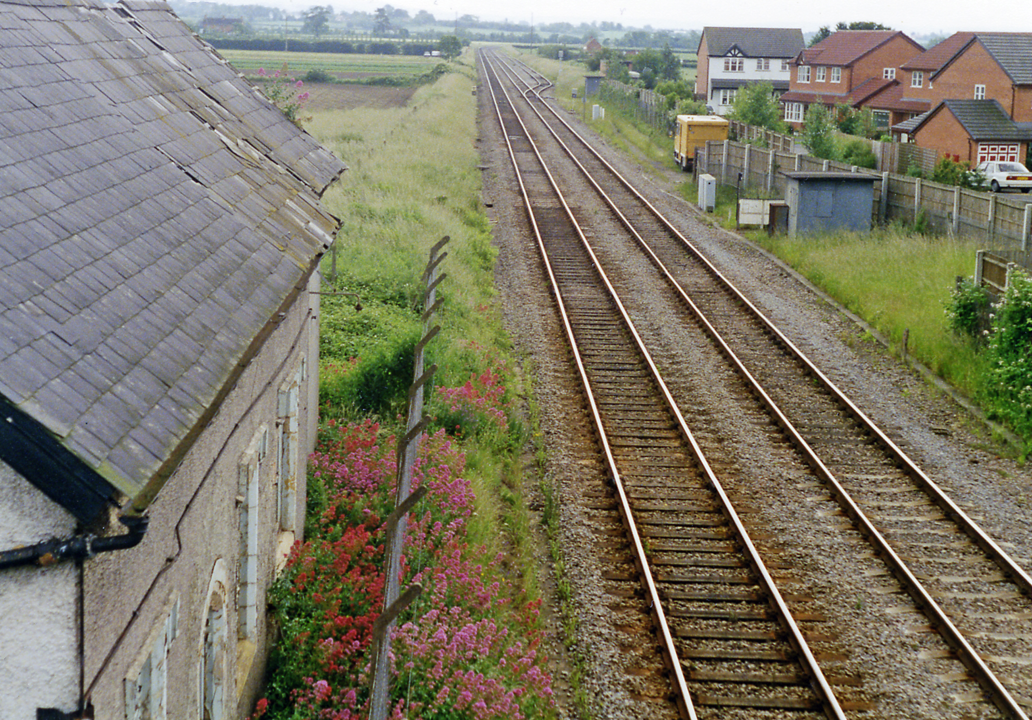 Eckington station (site/remains), 1993. View southward, towards Cheltenham, Gloucester and Bristol: ex-Midland Birmingham - Bristol main line. The station was closed 4/1/65, but the line is very much still open - even including the Up loop added during the War.